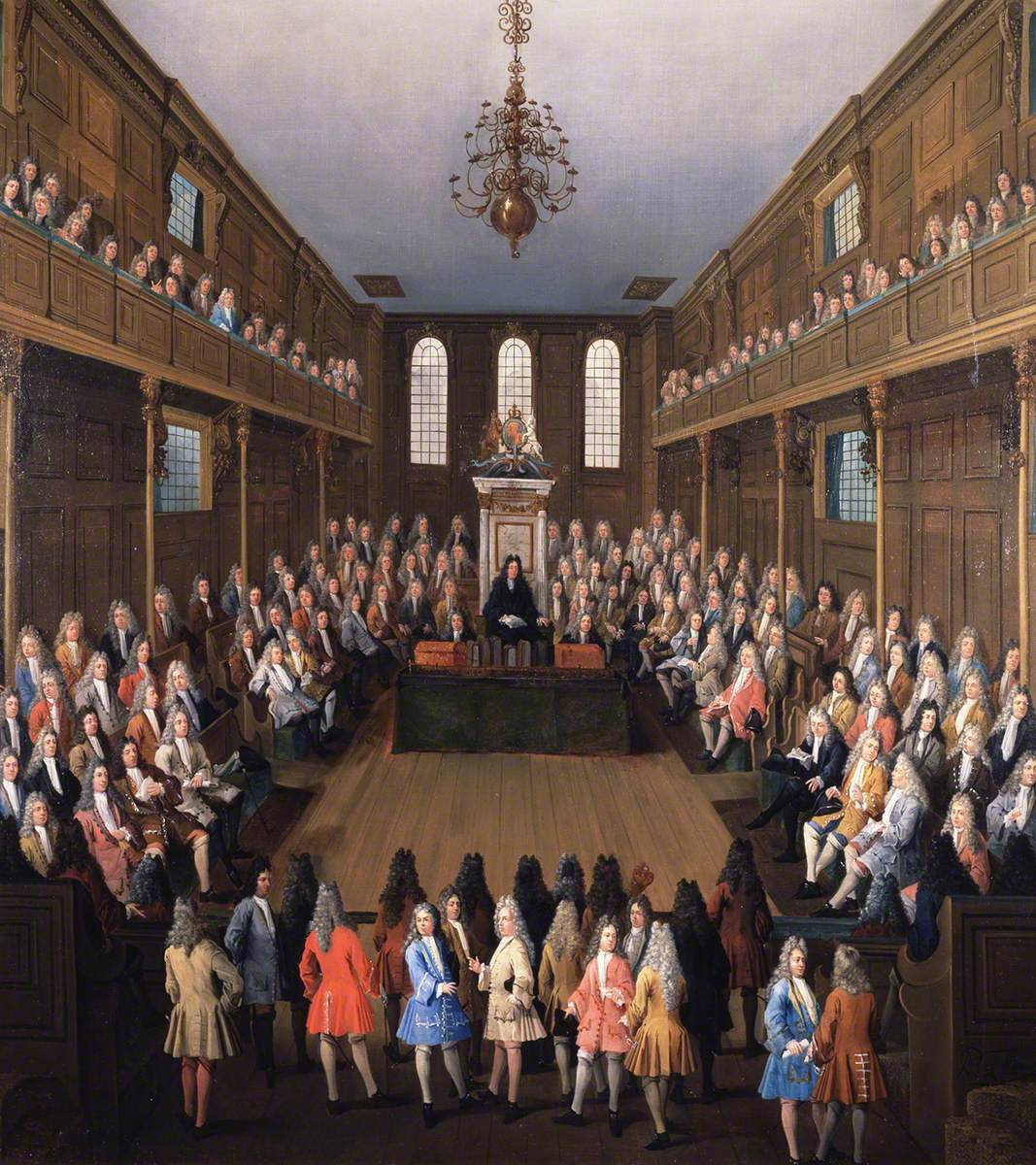 Pre-1834 interior of the House of Commons when it was situated in the medieval chapel of St. Stephen\'s where the House of Commons had sat since 1547. This painting shows the galleries designed by Sir Christopher Wren. The Speaker depicted is believed to be Richard Onslow i. The arms of Queen Anne are shown above the Speakers chair.